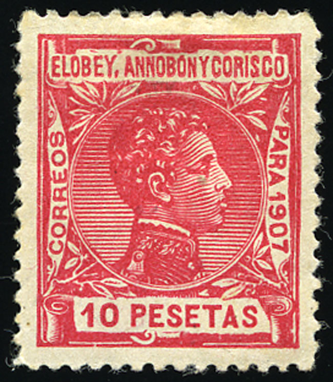 Definitive postage stamp of Elobey, Annobon, and Corisco islands (Equatorial Guinea), Alfonso XIII, 10 pesetas, 1907